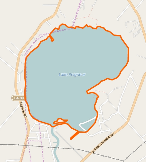 Lake Peigneur, Louisiana